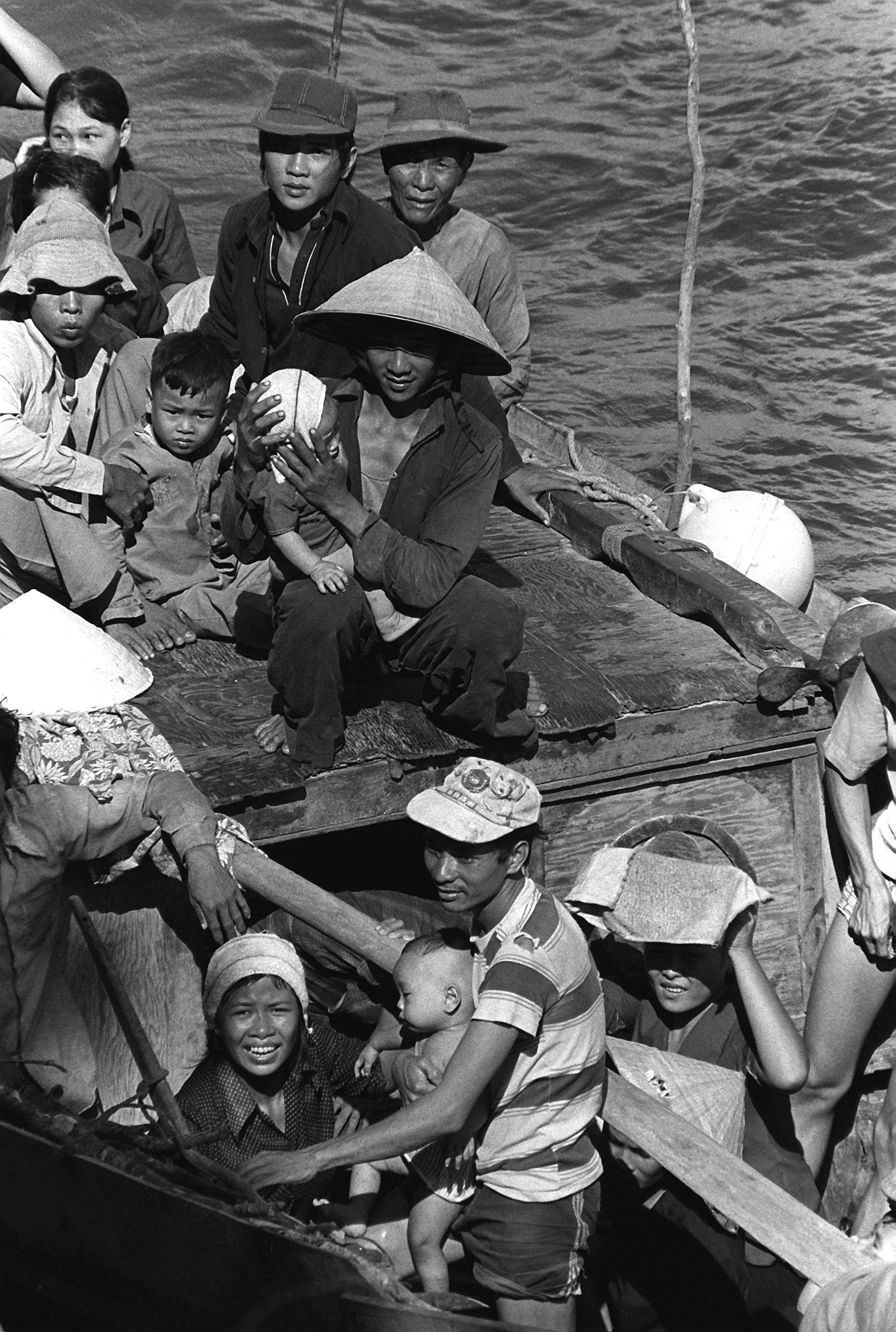 35 Vietnamese refugees await rescue from their 35 foot fishing boat. They were rescued by the amphibious command ship USS BLUE RIDGE (LCC-19) 350 miles northeast of Cam Ranh Bay, Vietnam, after spending eight days at sea.